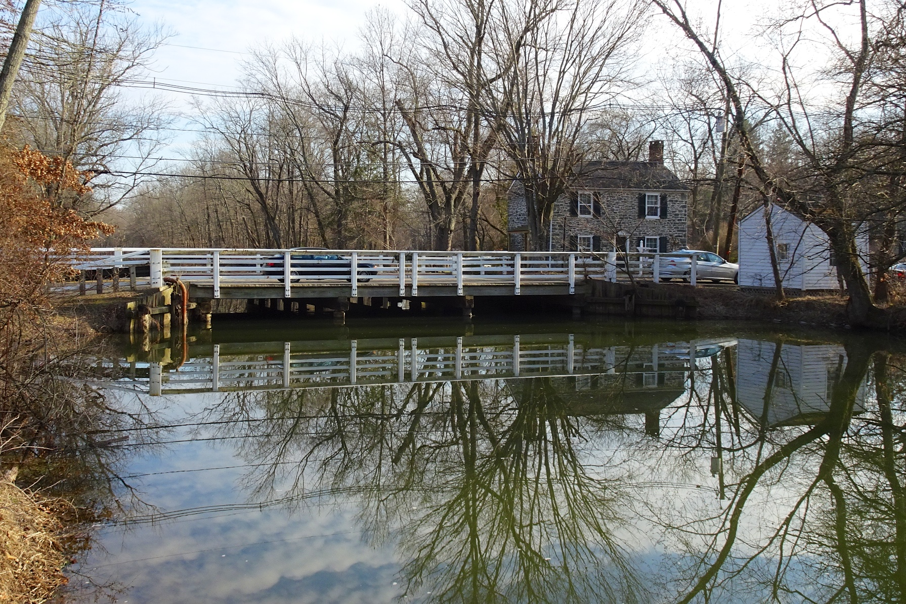 Bridge Tender's House and Bridge located in Griggstown, New Jersey. It is along the Delaware and Raritan Canal.